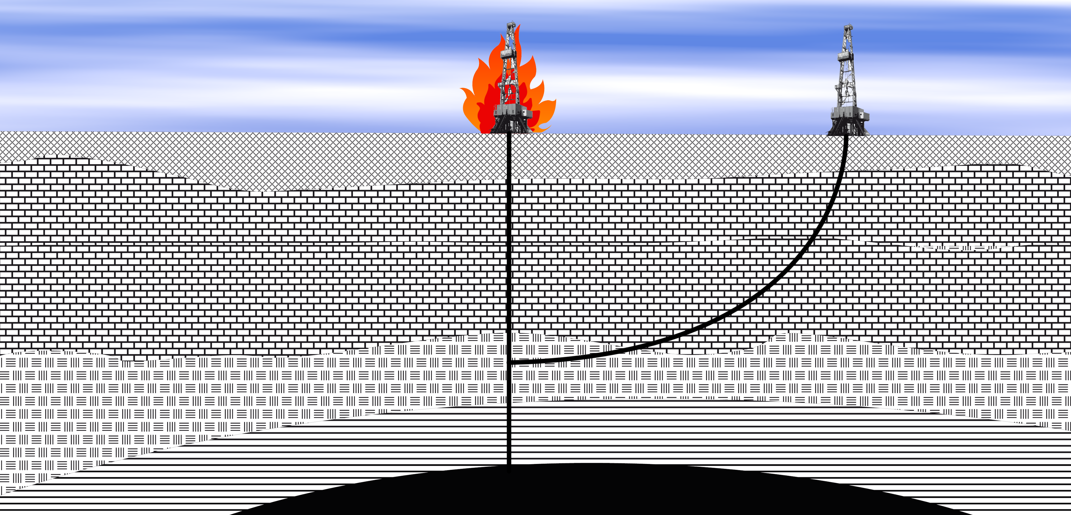 Rescue directional well - diagram.